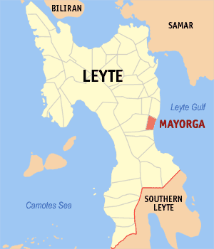 Map of Leyte showing the location of Mayorga